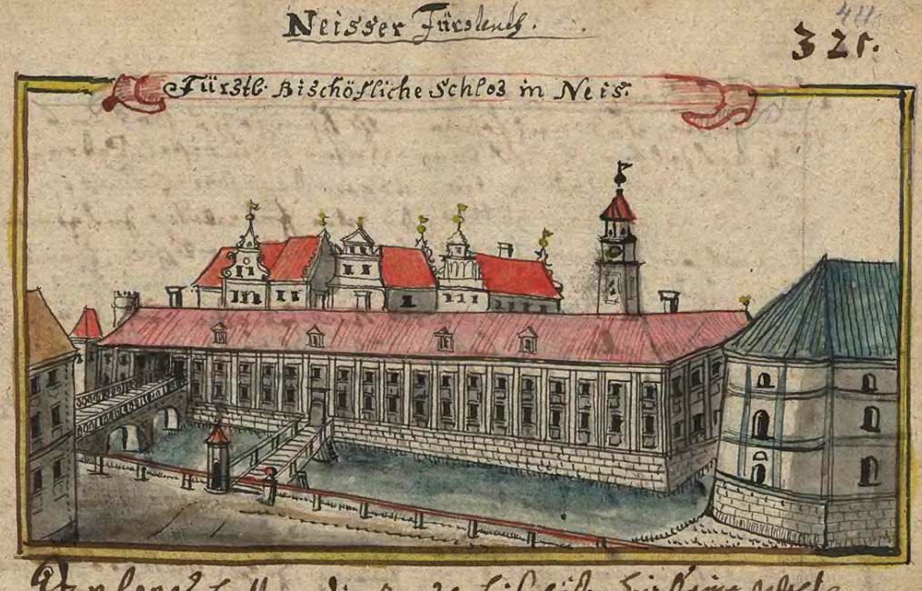 A view of the Bishop's Court in Nysa.